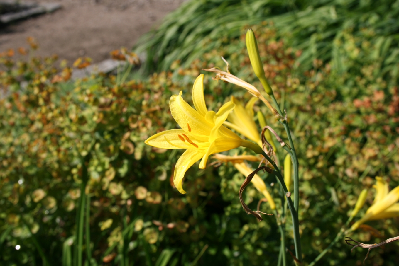 Hemerocallis lilioasphodelus: Flower.